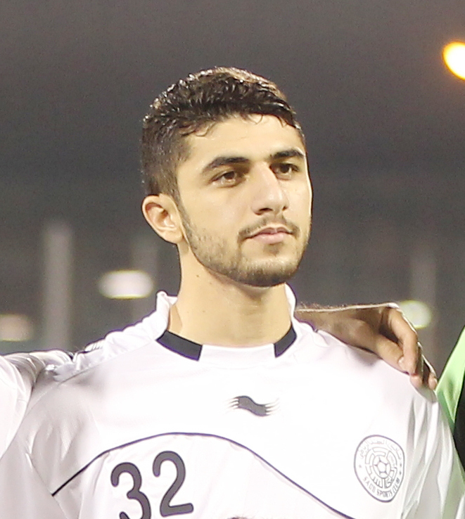 Members of the Al Sadd football team form a huddle prior to the start of their Qatar Stars League match. Picture by Mohan